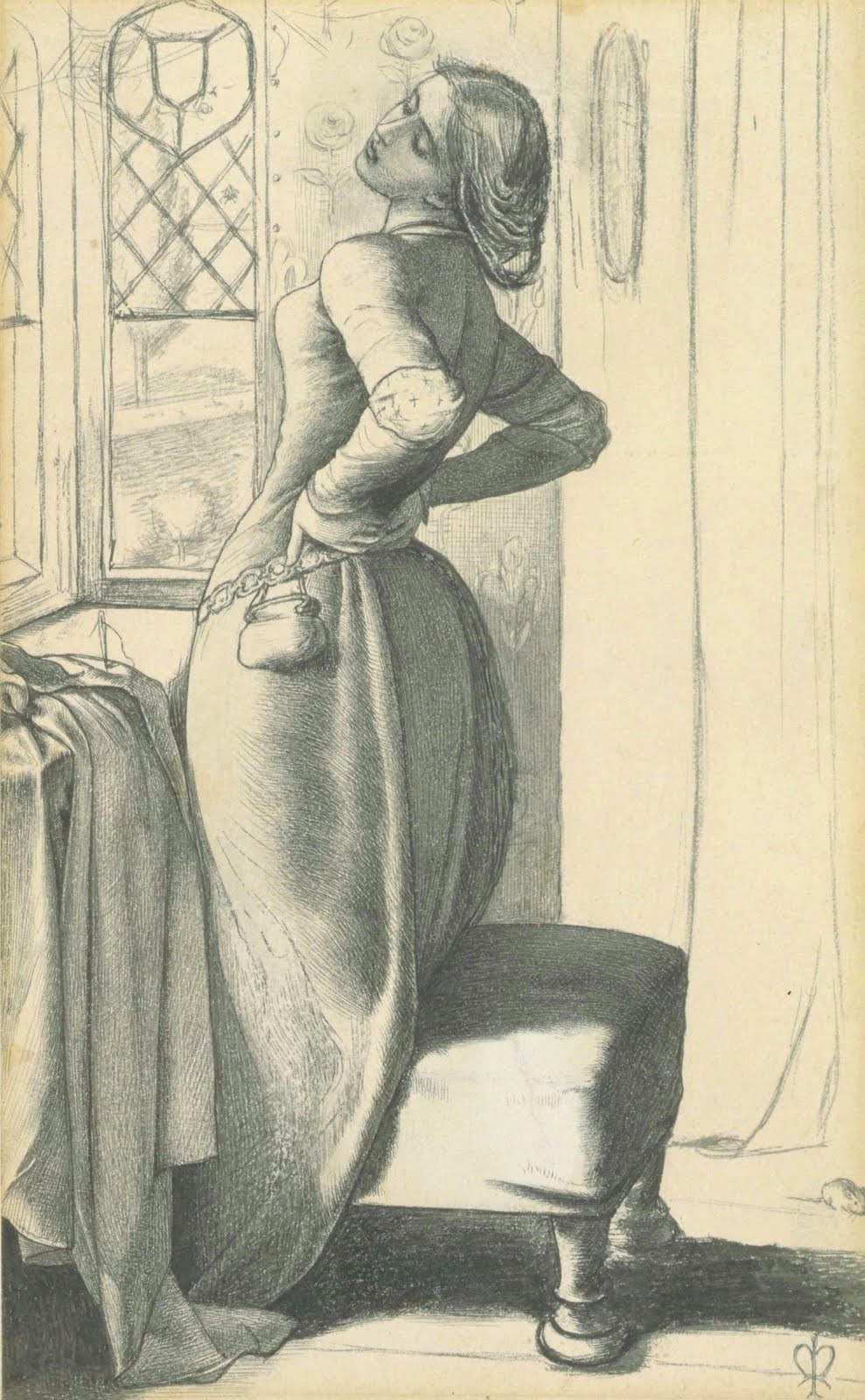 Mariana, study (Victoria and Albert Museum)